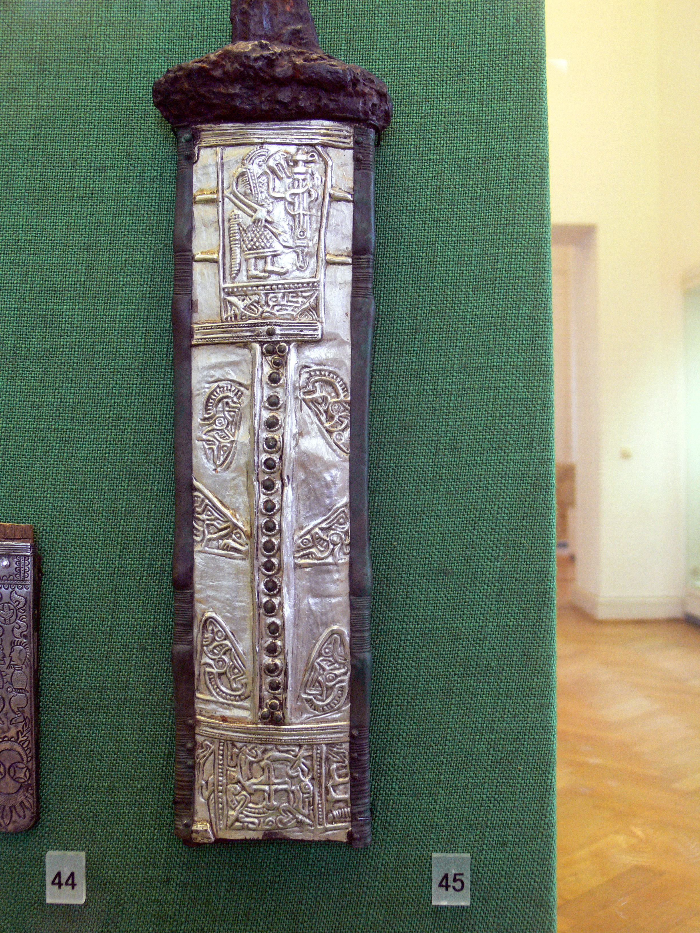 Wolf Warrior. Scabbard from Gutenstein, Bad.-Württ. Late 7th Century (formerly Berlin, now the Pushkin Museum). Replica Römisch-Germanisches Central Museum in Mainz.